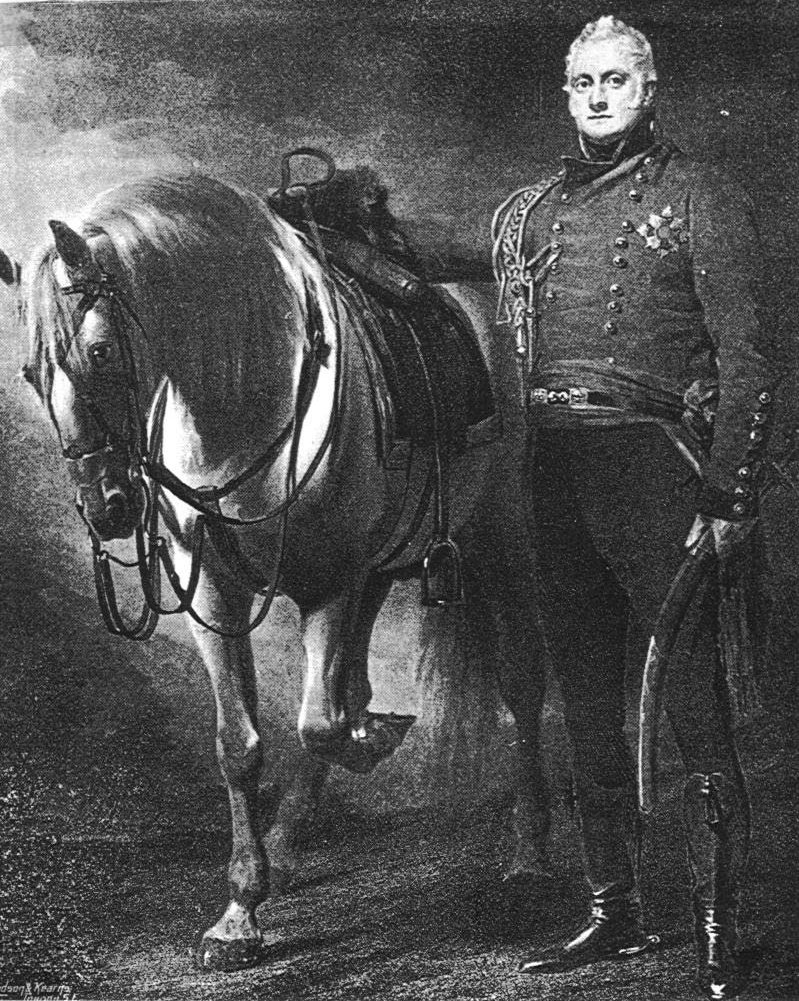 General Sir John Hope, 4th Earl of Hopetoun (1765-1823)